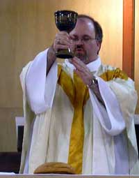 Dr. Gregory S. Neal, UM Elder, presides at the Eucharist.